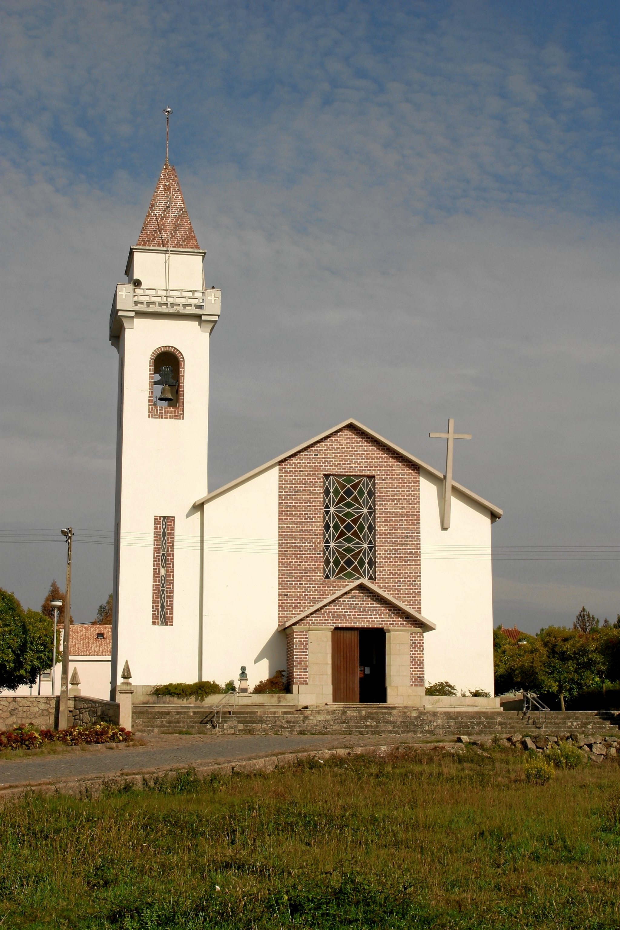 This file was uploaded for Wiki Loves Monuments in Portugal with the unique identifier 97015666.